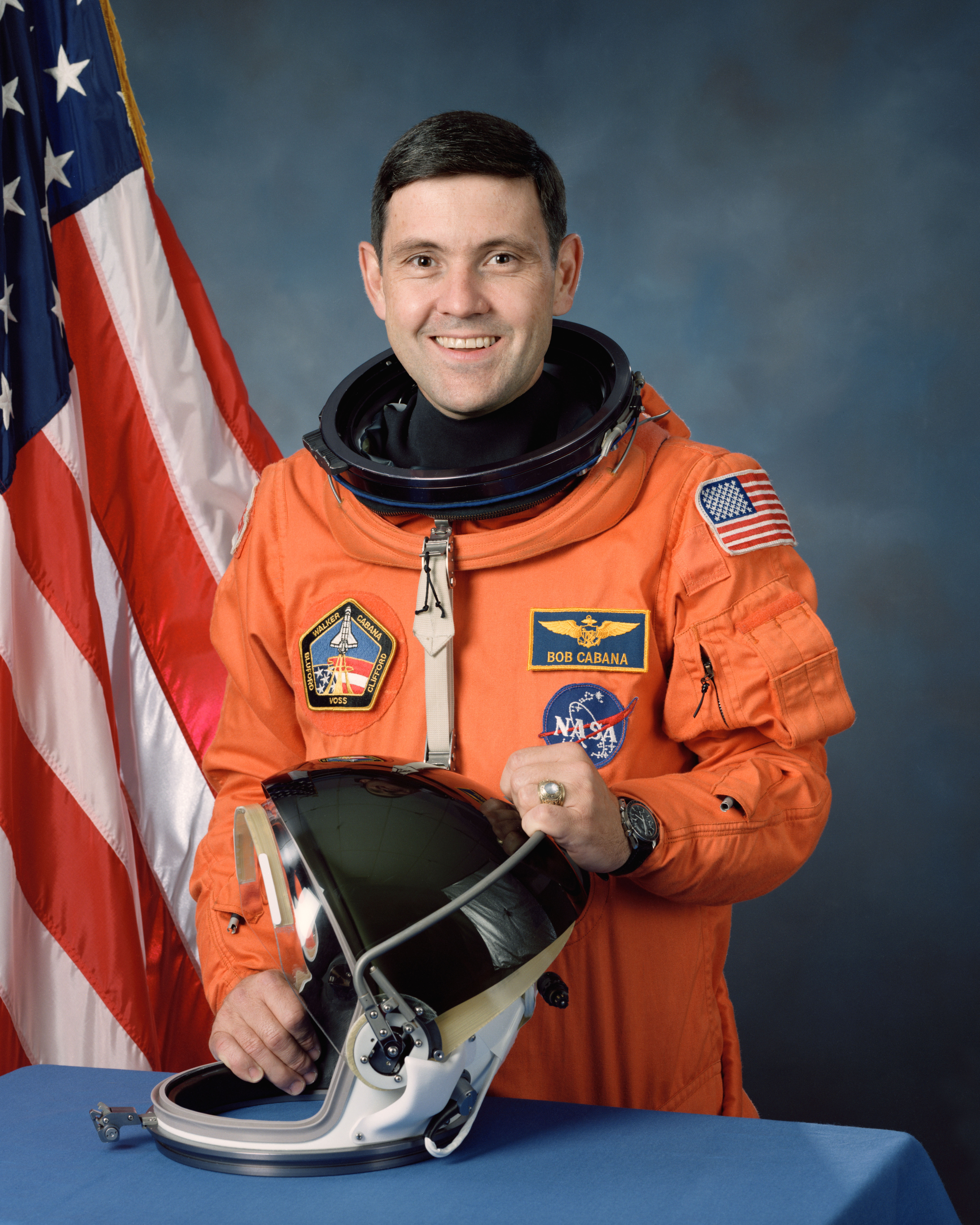 Robert D. Cabana, STS-88 mission commander